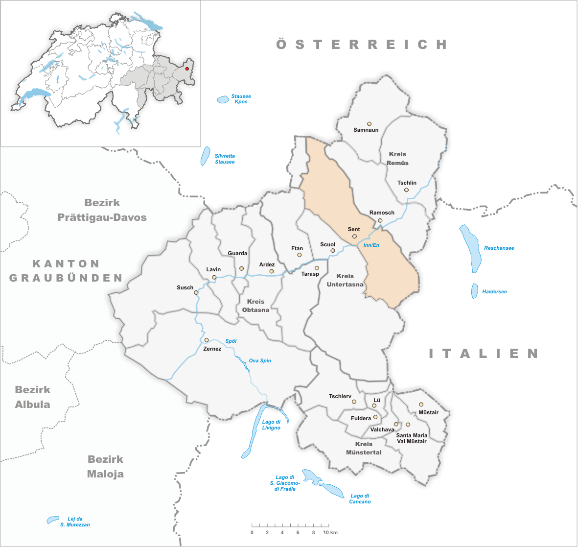 Municipality Sent